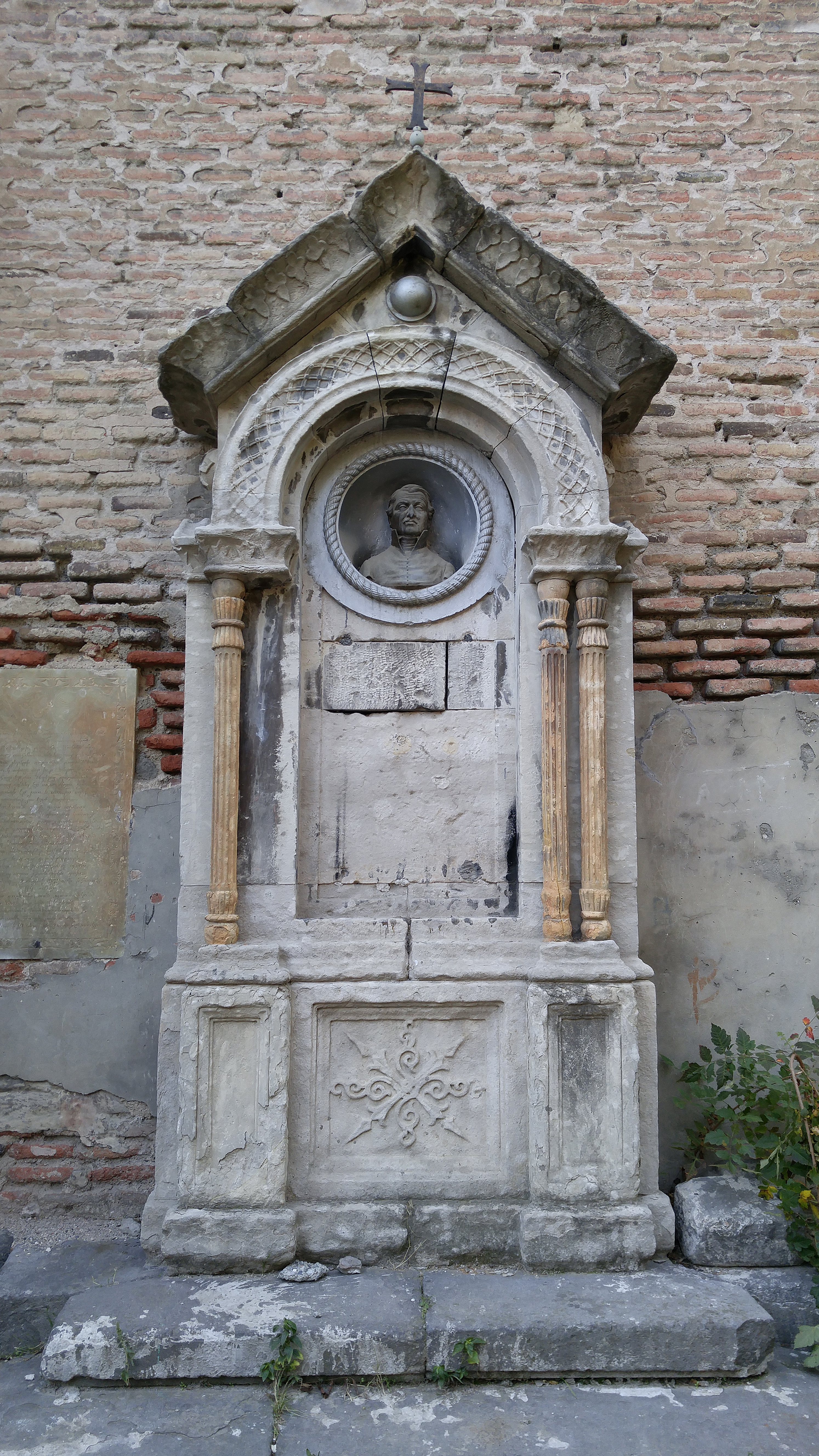 Tbilisi in some countries also still named by its pre-1936 international designation Tiflis is the capital and the largest city of Georgia, lying on the banks of the Kura River with a population of approximately 1.5 million people.